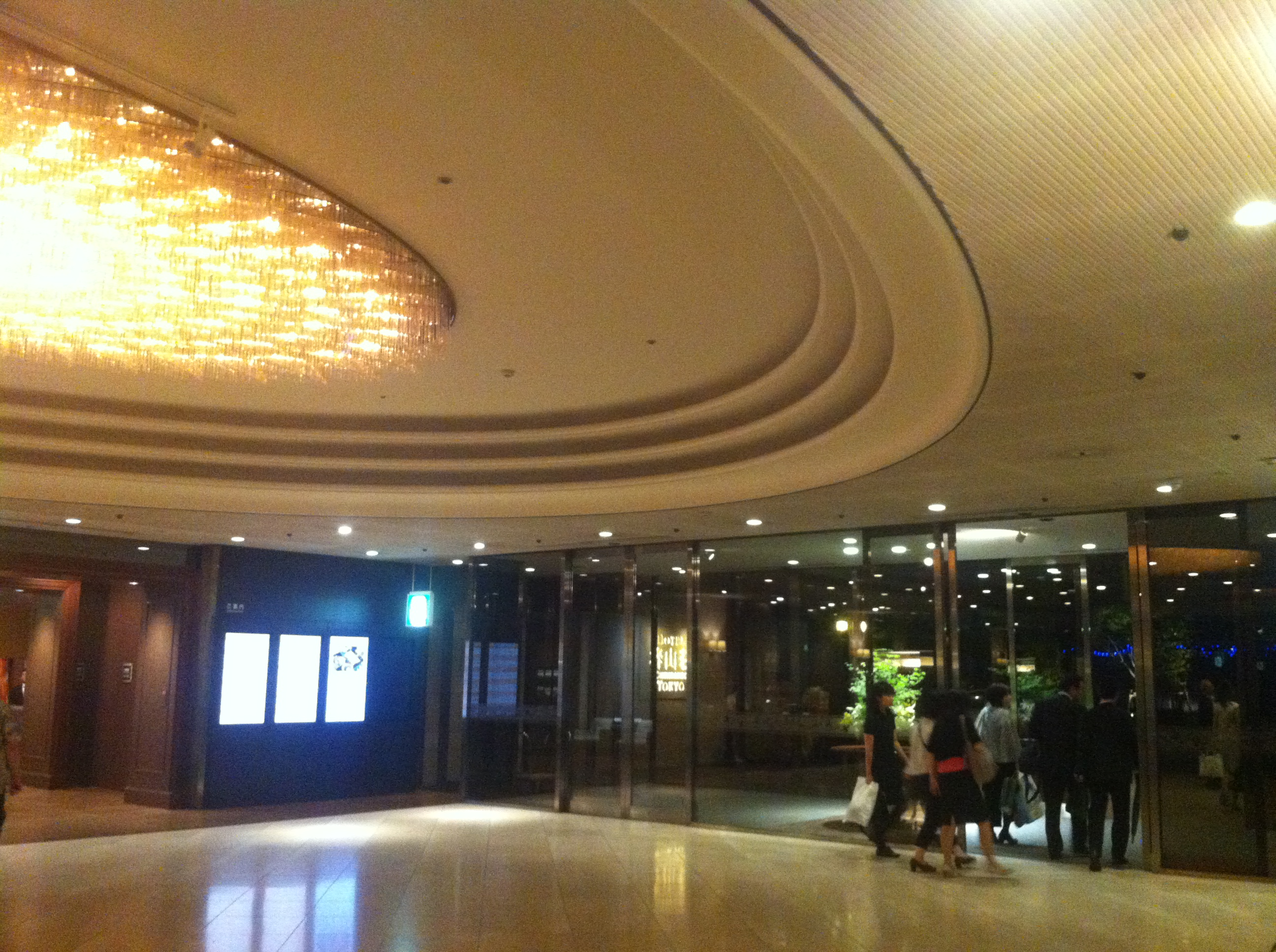 ホテル椿山荘のロビー (Hotel Chinzanso Tokyo's lobby area)